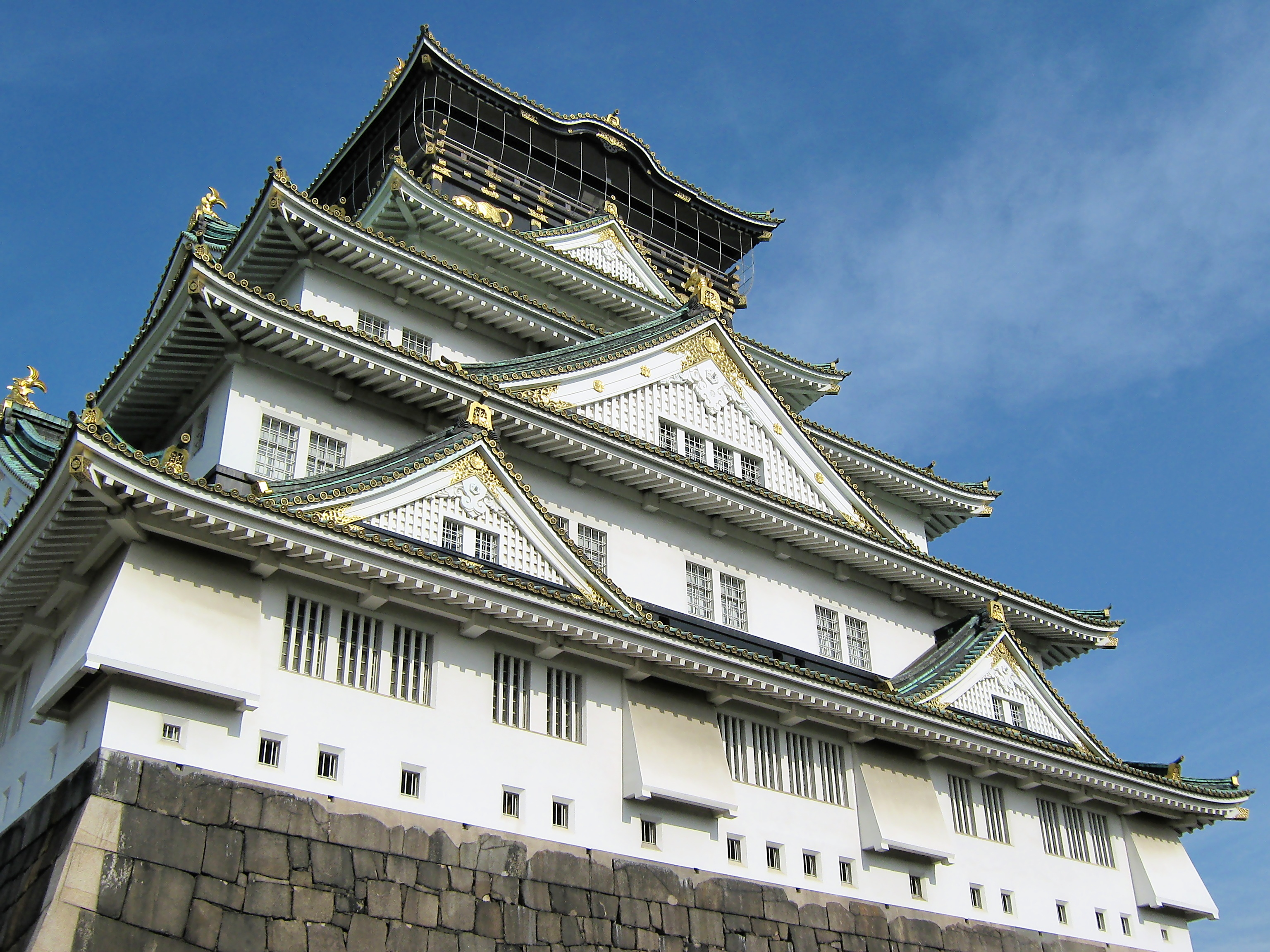 In Apr/May 2009, I took 15 days to walk all the way from Tokyo to Kyoto, roughly following the 546km long, ancient highway, the Nakasendo, alone. This picture was taken during the free week I had in Japan after the walk. Read about my preparations and my time in Japan at .